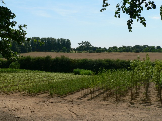 A Tree Nursery. The nursery is known as "The Garden of Trees" on the Castle Howard Estate